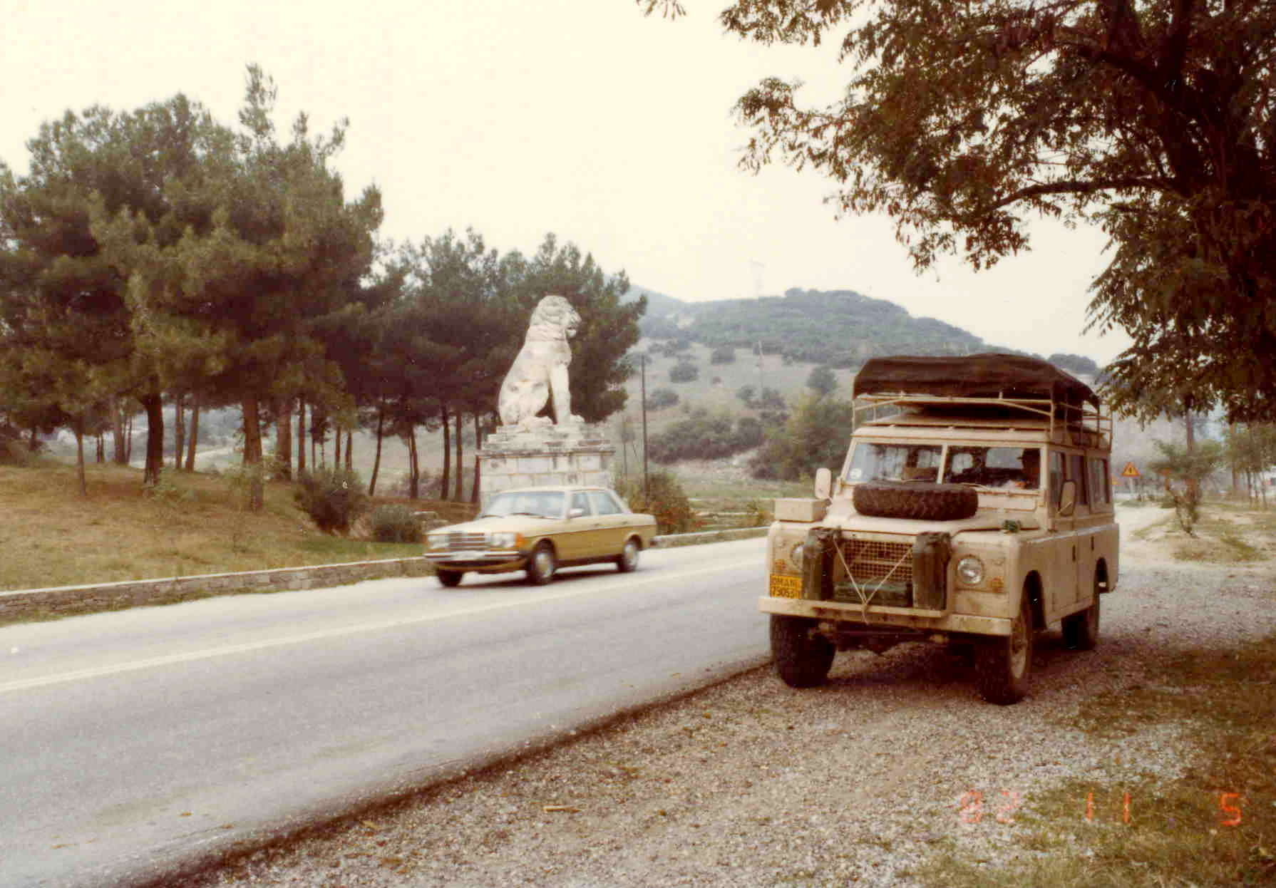 National road 2 (European road 90) at Lion of Amphipolis, Greece.